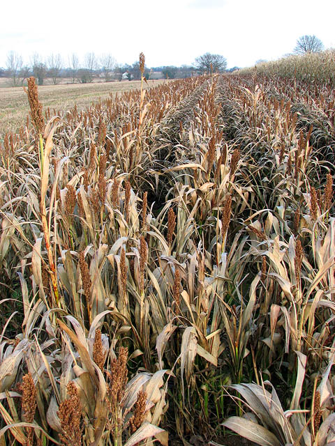 A crop of sorghum (Sorghum bicolor). Sorghum is extensively grown in India, northern China, and Africa where it is the leading cereal. Agricultural experts of the European Union are presently investigating the use of agricultural land for non-food production, such as the growth of biomass crops as a source of renewable energy and renewable sources of raw materials. One of the experimentally grown crops is sorghum (both the sweet and the fibre-producing varieties). The plant has a high net assimilation rate even under high light and water stress conditions and has the potential to produce high yields in fertile soils. The partners of the European Sorghum Network are studying the production and environmental impact of sorghum under field conditions at various sites around mainly southern Europe; investigations include low input trials and studies of soil erosion, crop rotations, and balances of water, nitrogen, carbon and organic matter. The ten partners of the European Sorghum Network are based in Italy, France, Spain, Greece, Portugal and at the University of Essex in Colchester.